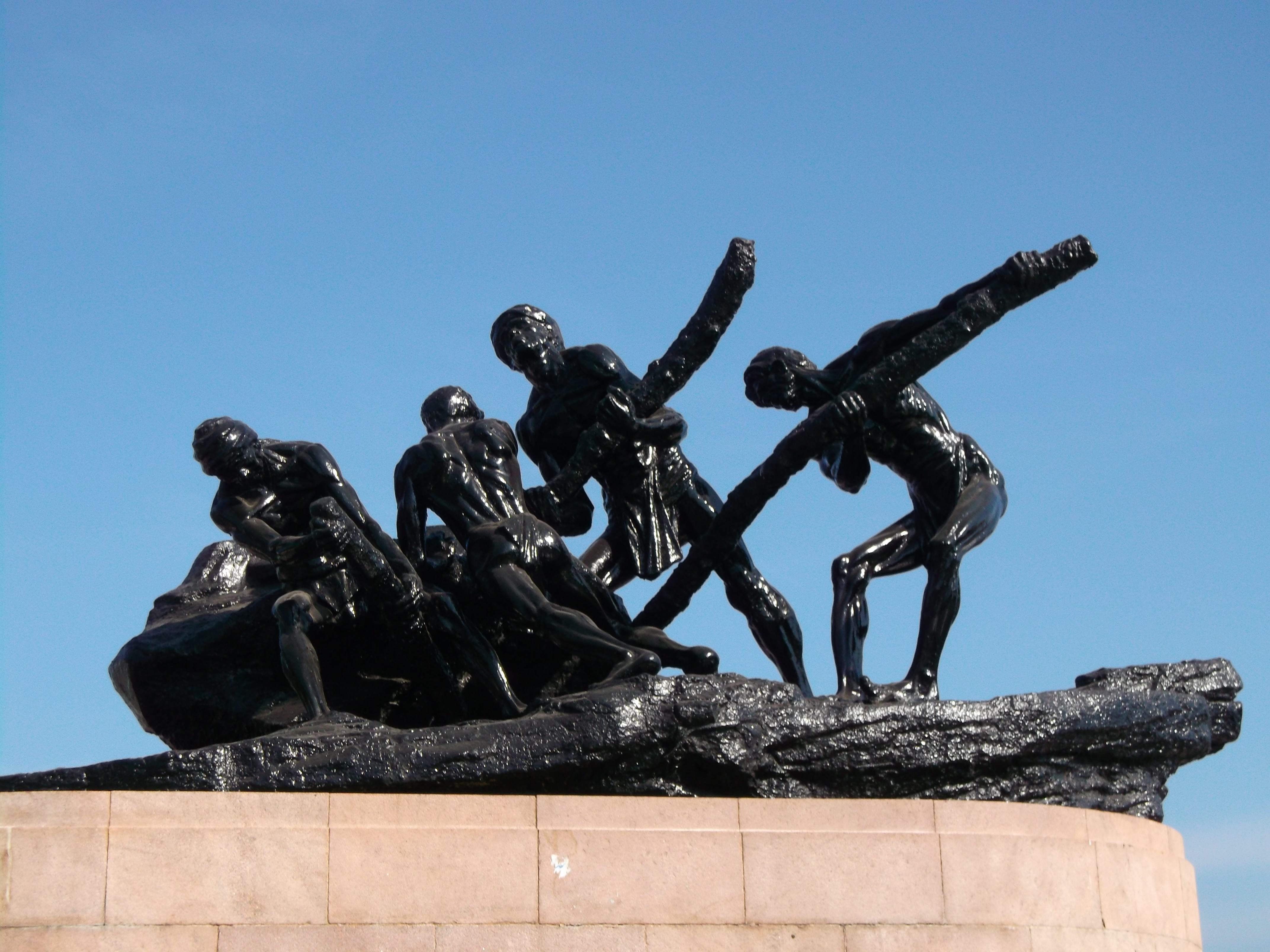 Chennai, Triumph of Labour statue, taken on 2-Feb-2013 at around 4.00 pm